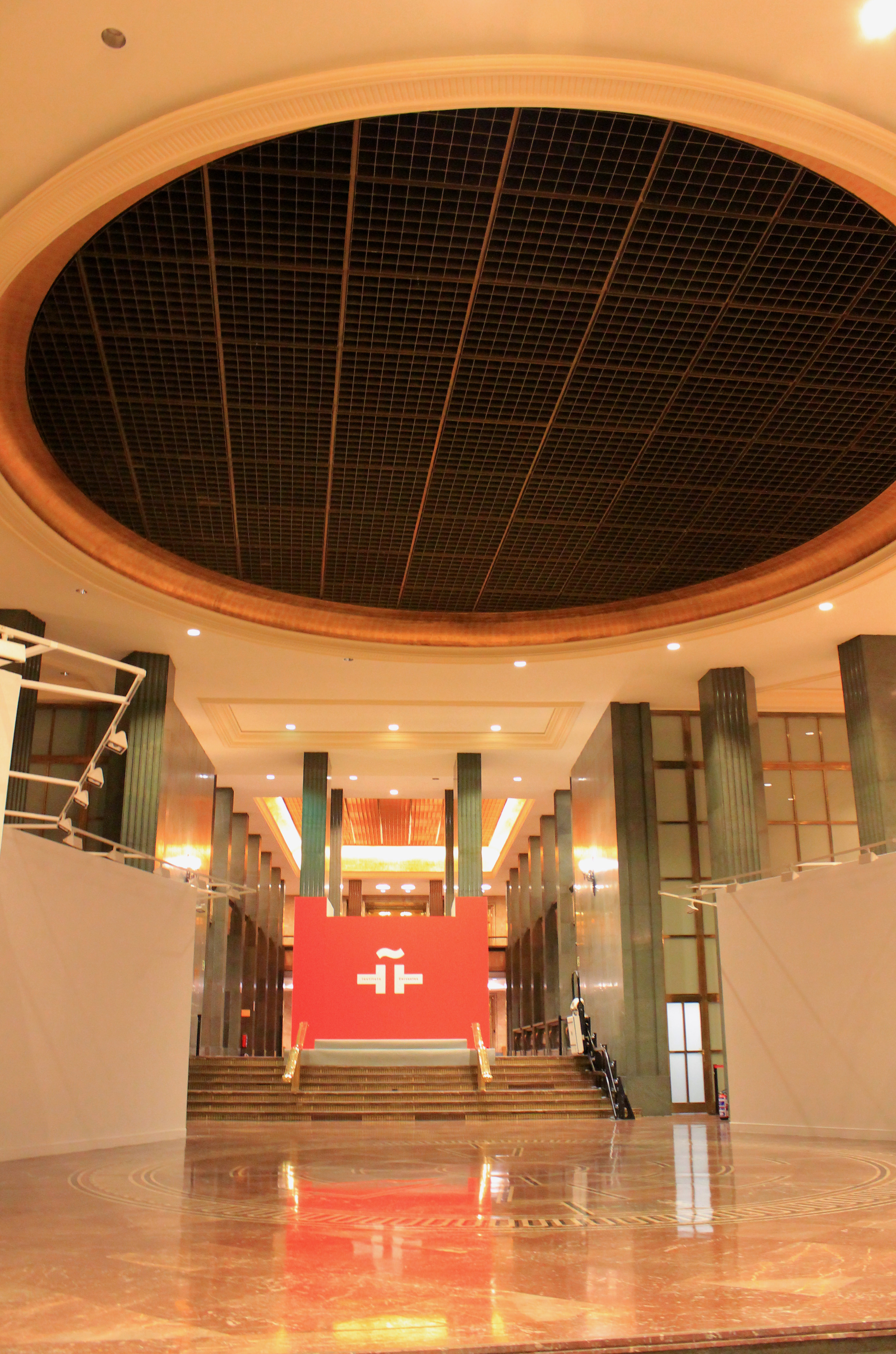 Lobby of the Cervantes Institute headquarters in Madrid (Spain).